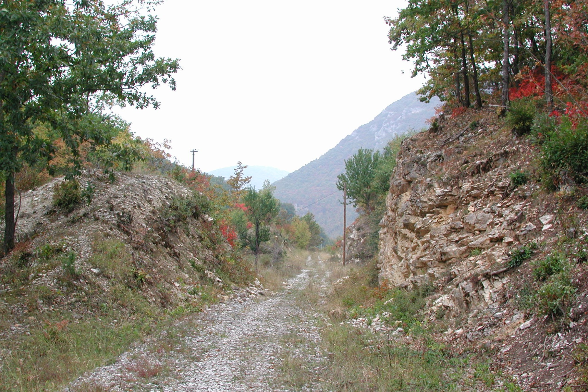 Disused trackbed of the old narrow gauge mainline from Belgrade to Sarajevo near Kotroman. In 2004 this section was rebuilt as part of the Šarganska osmica heritage railway project.